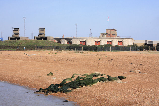 Landguard Fort Viewed from the disused jetty at Landguard Point.